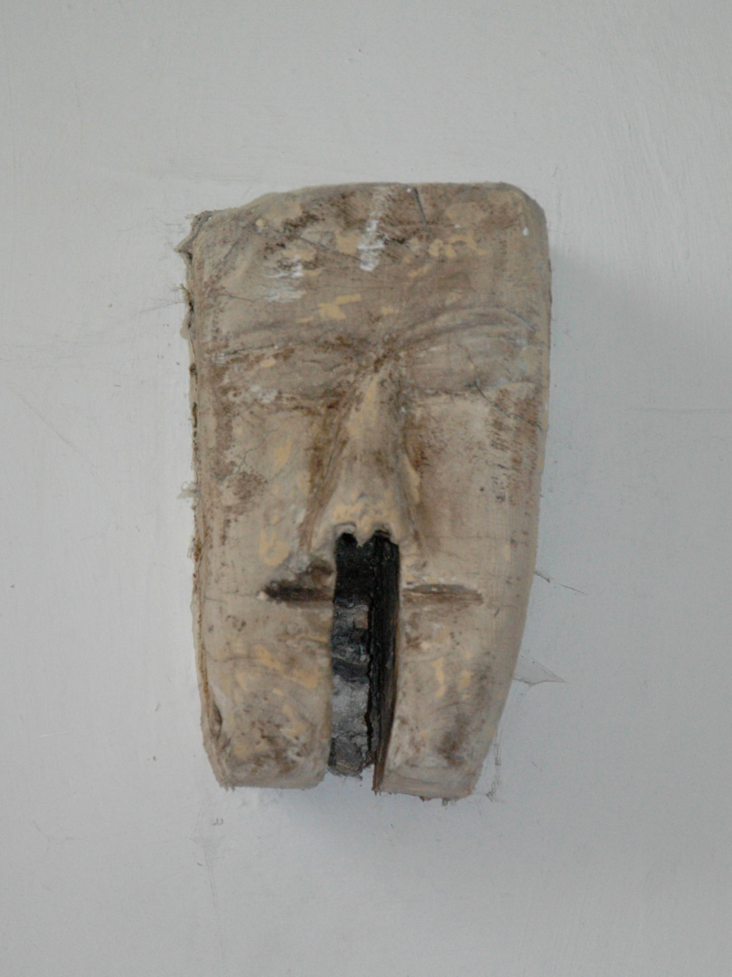 Church of England parish church of St Mary, Sydenham, Oxfordshire: Medieval pulley corbel of former Lenten veil